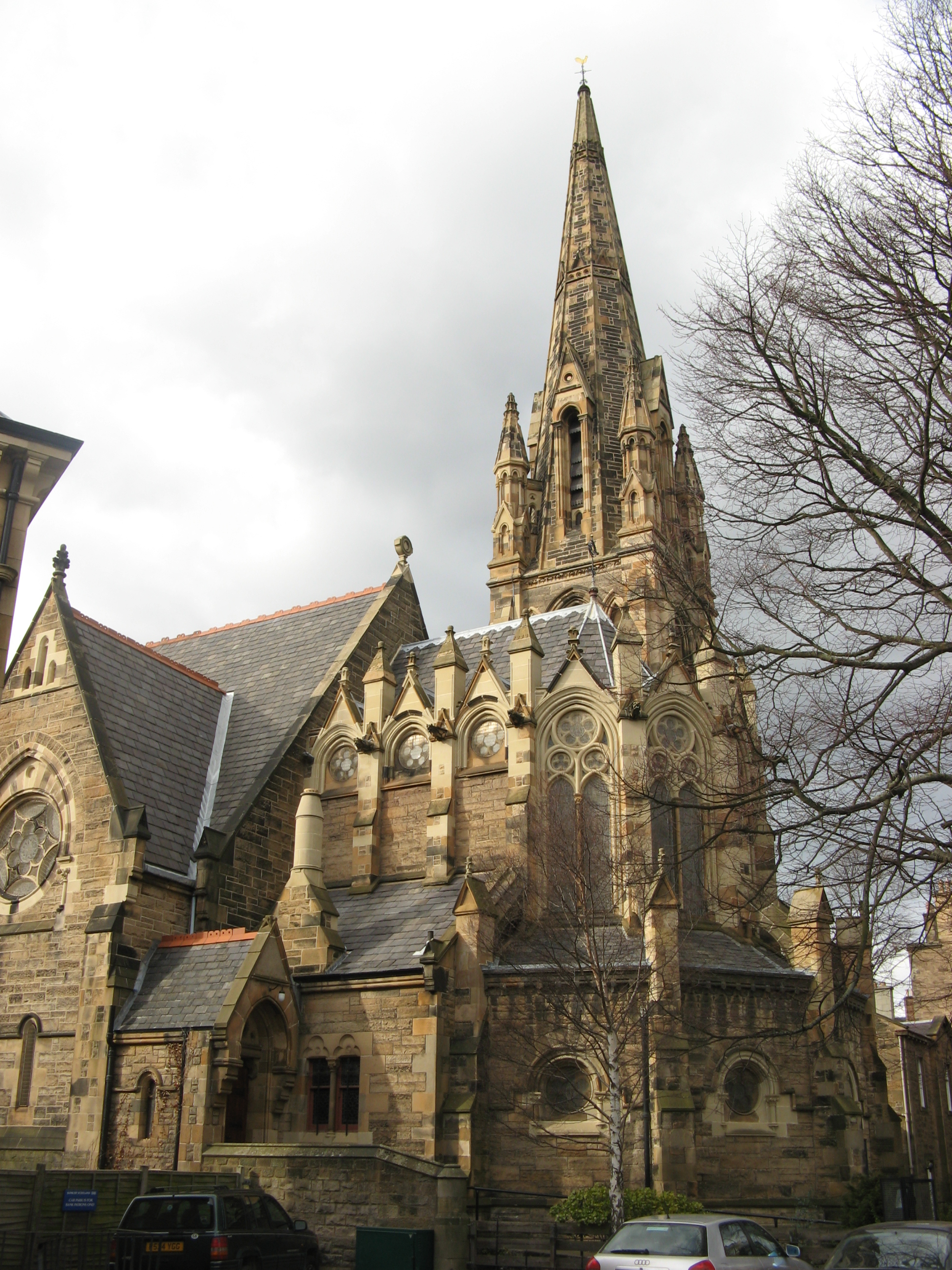 Christ Church Episcopal, Morningside. 1875-1878 by Hippolyte J. Blanc. Still in use by Scottish Episcopal Church.